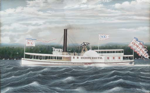 Henry Smith, New York steamboat, also known by other names, including John L. Lockwood and Victor. Watercolor on cardboard by James Bard.